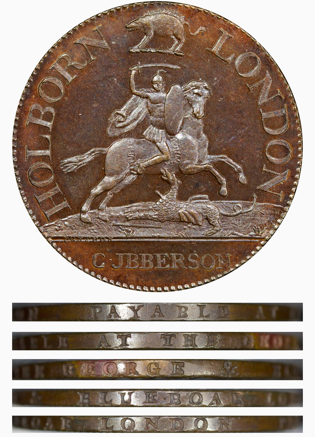 This token was struck in December 1794 or January 1795 for Christopher Ibberson, the proprietor of the "George & Blueboar" hostelry in High Holborn in the West End of London. It was originally just called the "Blue Boar" and was a starting point for coaches heading North. The obverse includes a rendering of St George and the Dragon by Ponthon, and an impressed edge inscription "PAYABLE AT THE GEORGE & BLUEBOAR LONDON". The reverse of the token (not shown) bears the text "Mail and Post Coaches to all parts of England". This token is indexed in Dalton and Hamer as Middlesex 342, and is listed as scarce. The estimated mintage of the token is between 75 and 150 pieces, most surviving in a very high state of preservation.